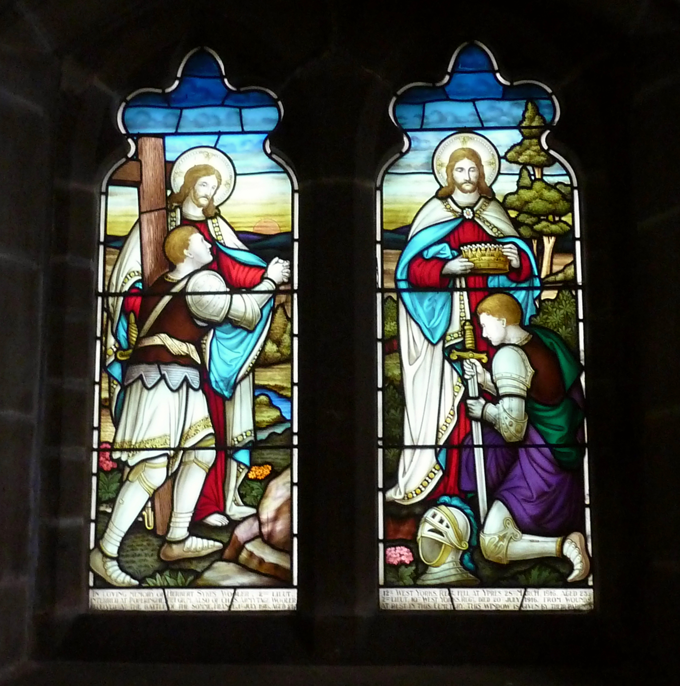 Interior of Church of All Saints, Otley Road, Harlow Hill, Harrogate, North Yorkshire, England. It is the cemetery chapel in Harlow Hill Cemetery, and was designed in 1870 by architects Isaac Thomas Shutt and Alfred Hill Thompson. Showing window on north wall of nave, dated 1916 and dedicated to the Wooler family.